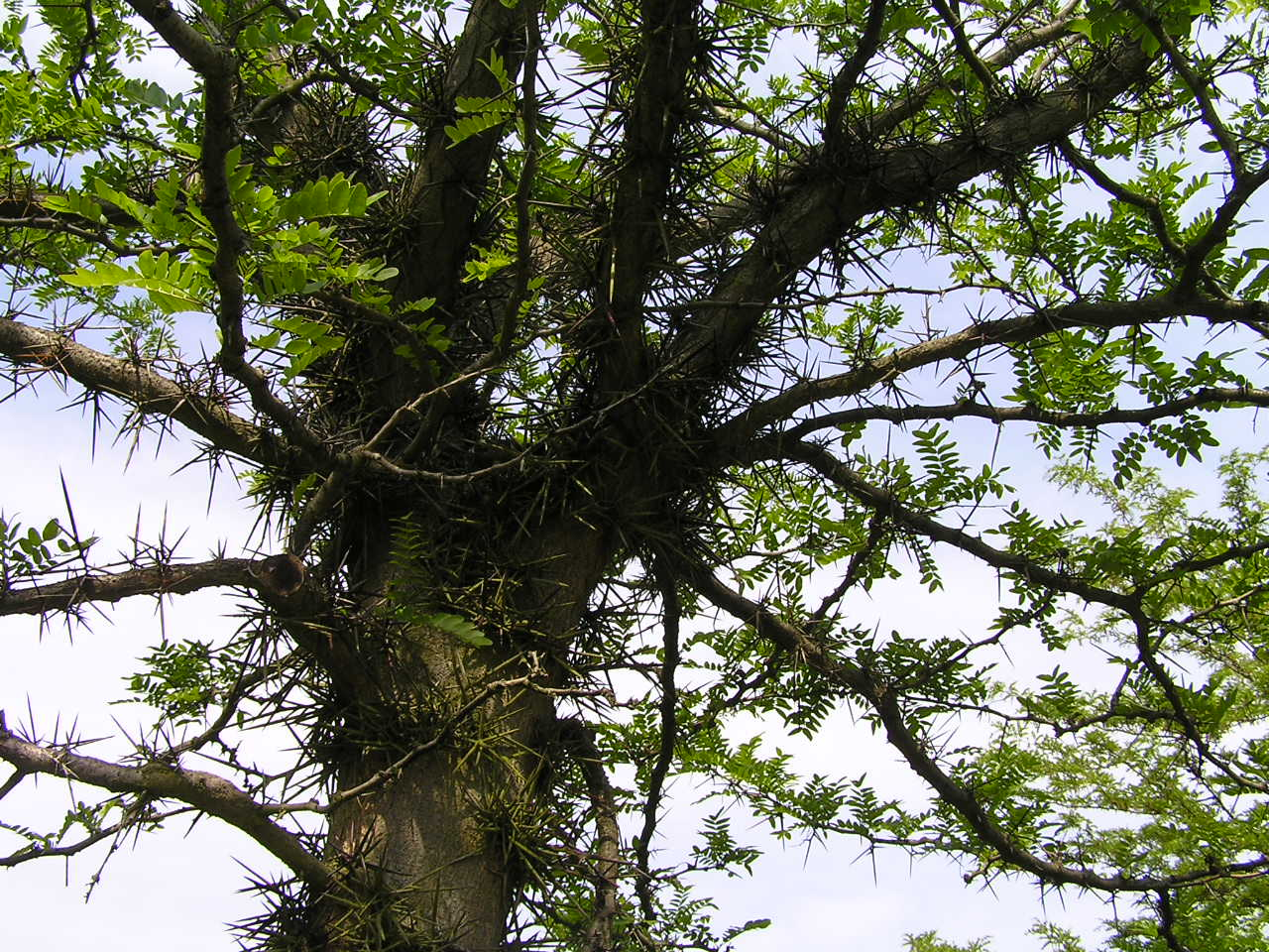 Trunk of Gleditsia ×texana in the arboretum of Chèvreloup in Rocquencourt, France